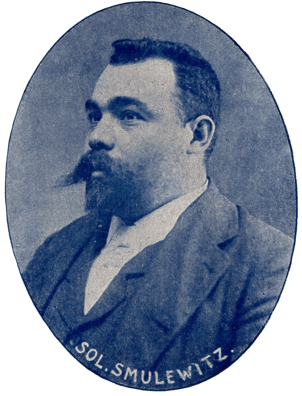 From sheet music cover "Er hat gelacht" (Er hot gelakht)